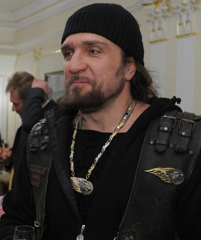 Vladimir Putin and president of the Night Wolves biker club Alexander Zaldostanov